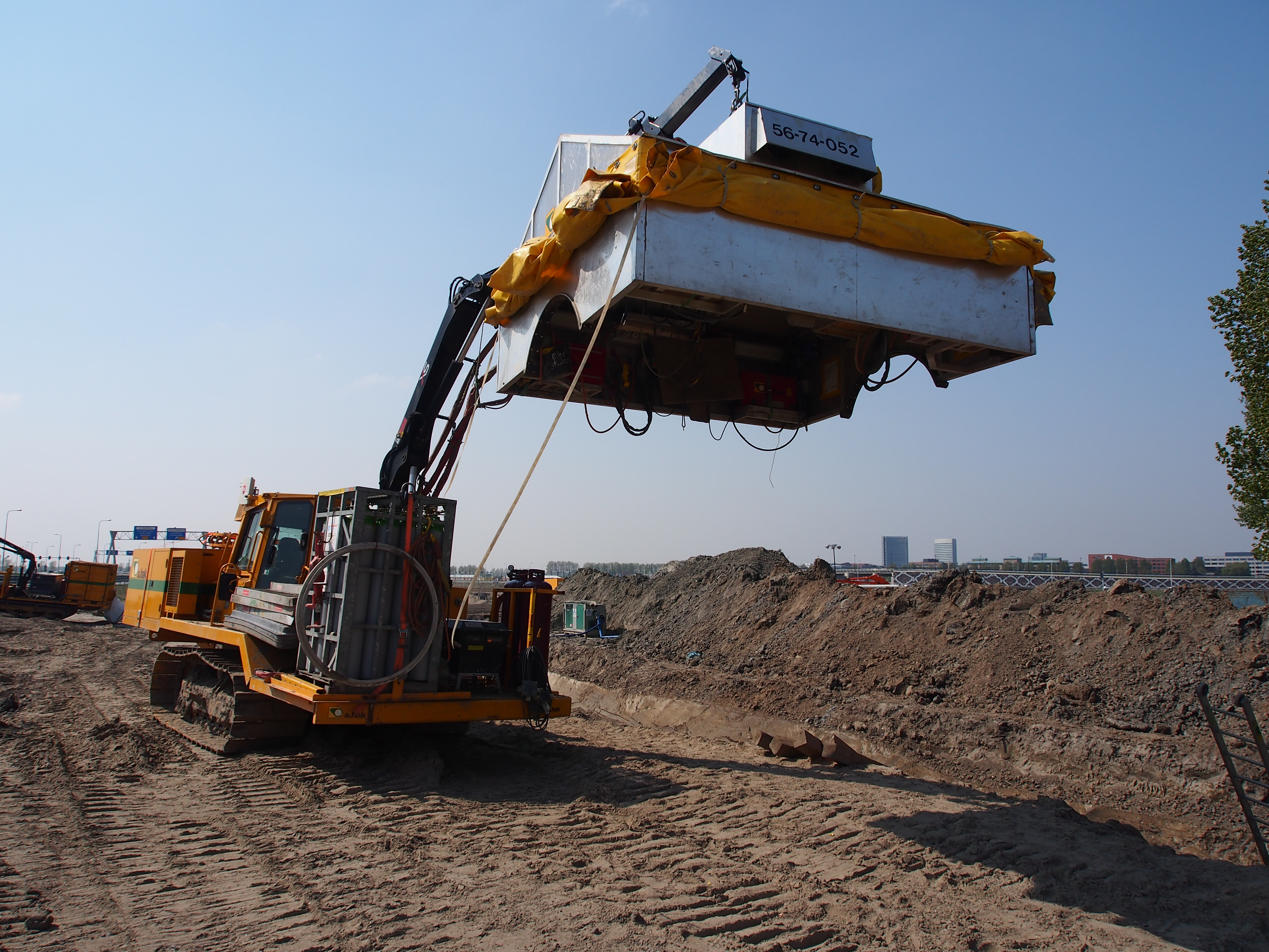 Photographed at Hoofddorp in The Netherlands.